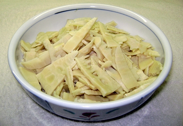 Cooked Giant Timber Bamboo (Bambusa oldhamii) sprouts. Taken by P. Pdeitiker 7-20-2006. Prepared by removing skins and selecting soft pulp. Single cut across at base of soft shoots (~12). Sliced along the axis of the shoot to about 1 to 3 mm. Boiled in tap water, 10 volumes per each volume of shoots, 3 times.